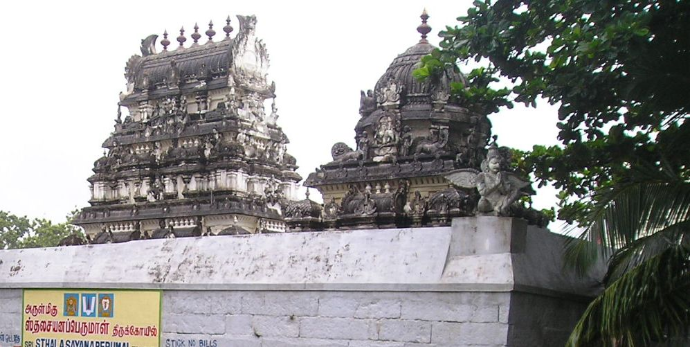 Thiurkadalmallai, Mahabalipuram